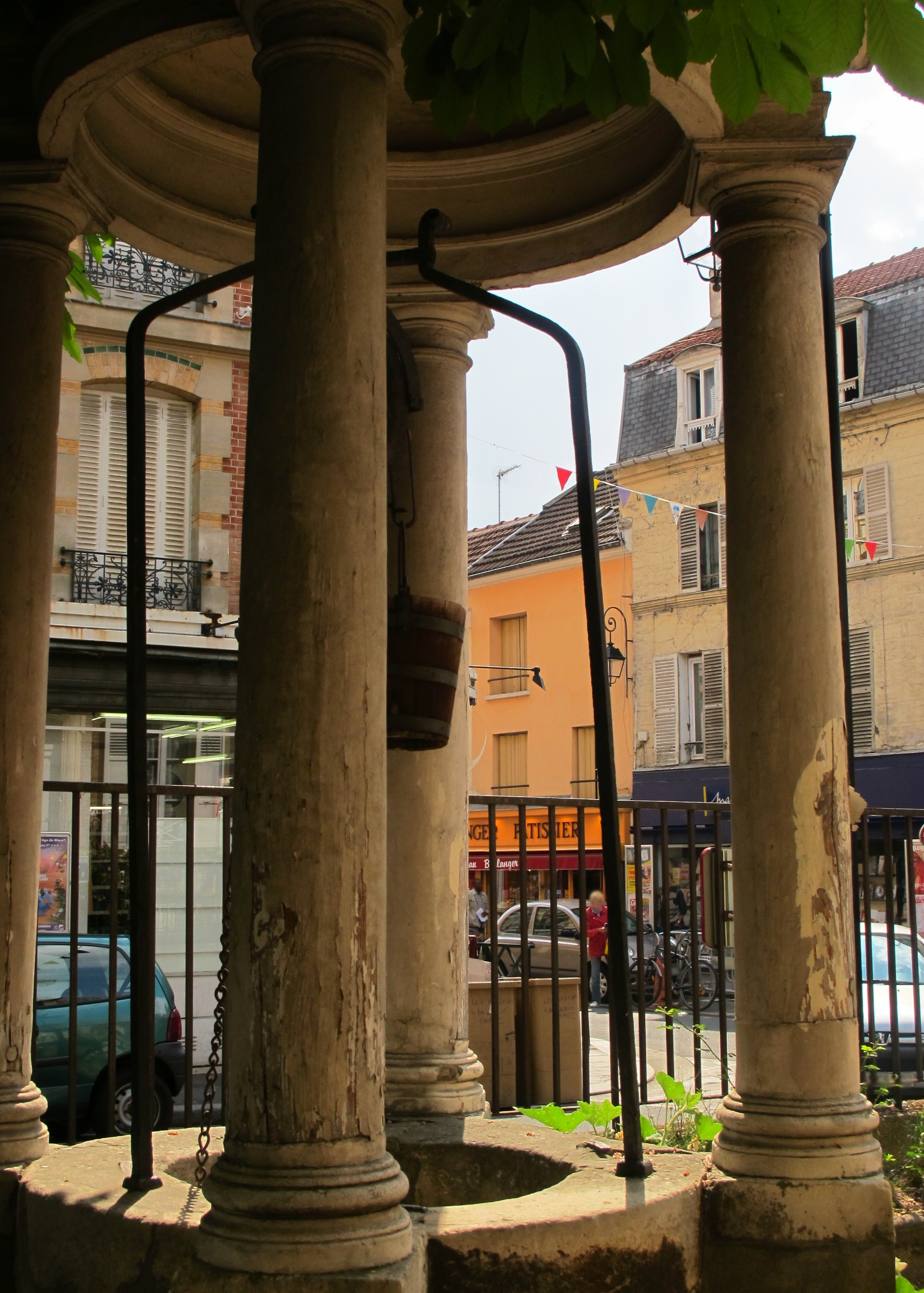 St. Genevieve water well, in Nanterre, Hauts-de-Seine, France.